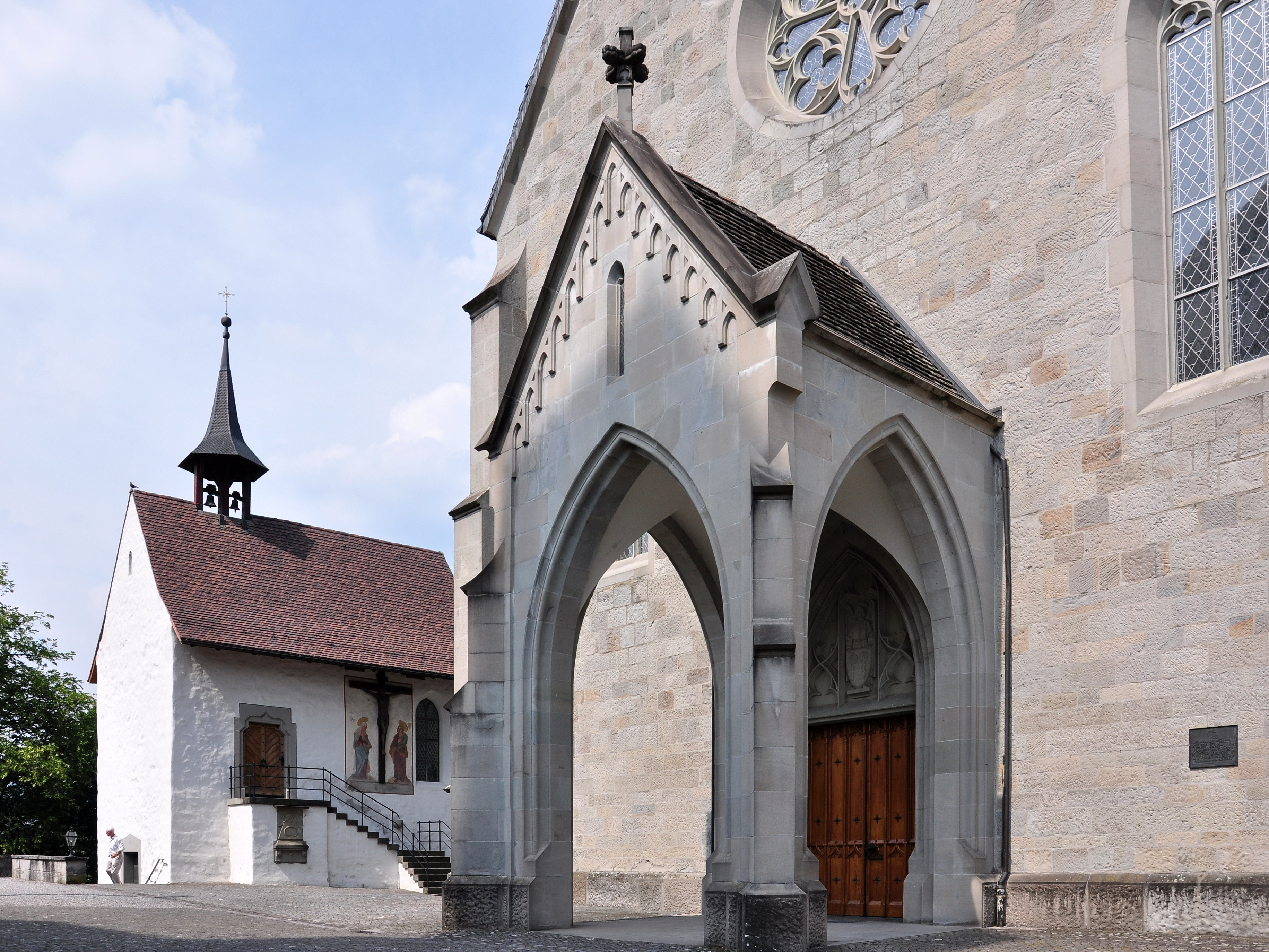 Rapperswil (SG) : Stadtpfarrkiche St. Johann (S. John's church) and Liebfrauenkapelle (S. Mary's Chapel).